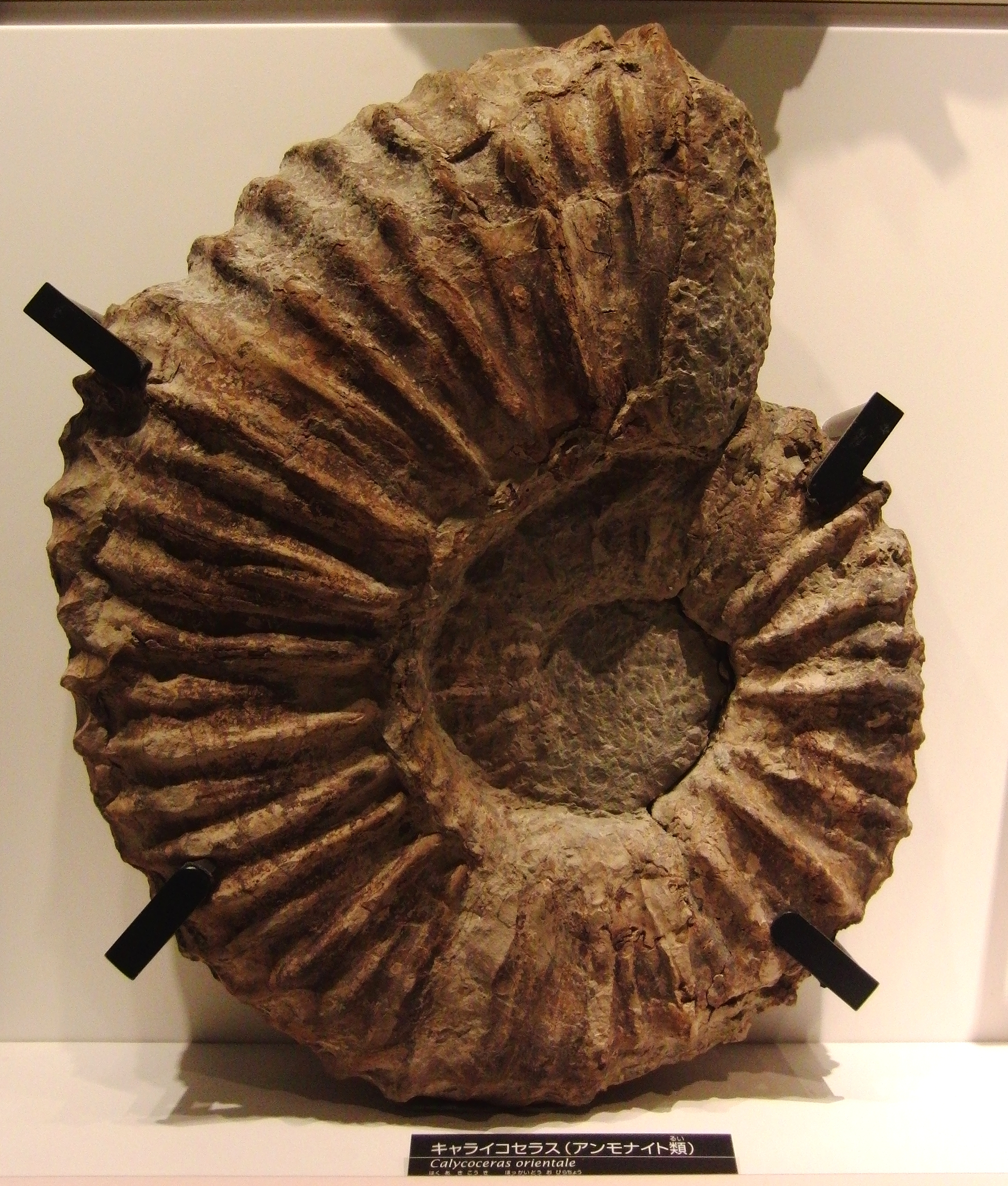 Fossils of Ammonite (Calycoceras orientale) from Obira, Hokkaido, Japan. Late Cretaceous. Exhibit in the National Museum of Nature and Science, Tokyo, Japan.